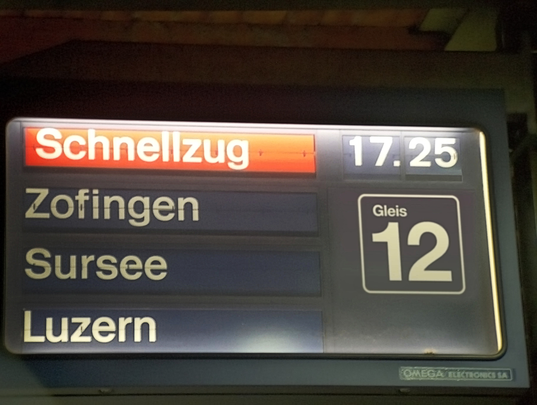 Train destination display at Olten